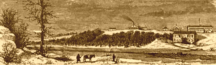 Fort Gibson as viewed from the banks of the Grand River.